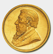 Gold tickey struck by Sammy Marks of South Africa in 1898.